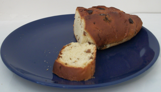 A cake from Lucca Tuscany Italy